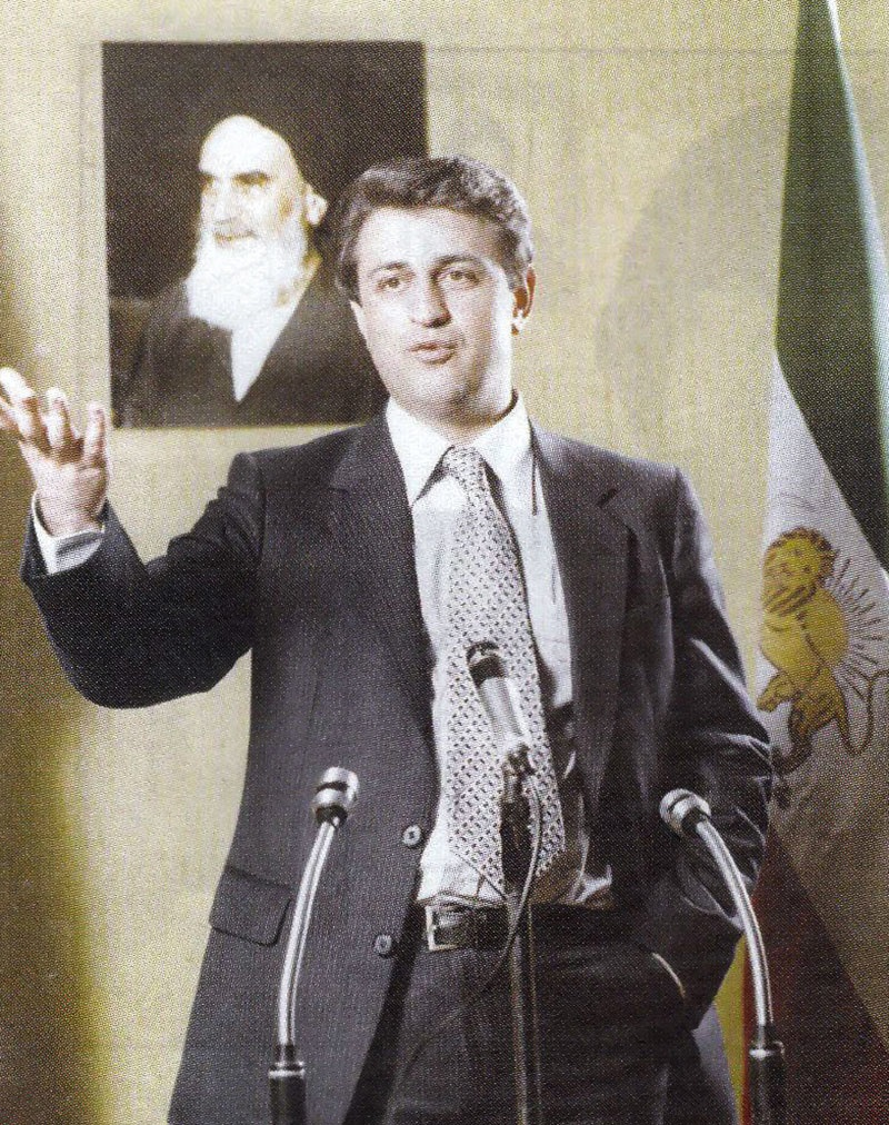 Sadeq Tabatabaei in a press conference about 1979 Iranian Islamic Republic referendum